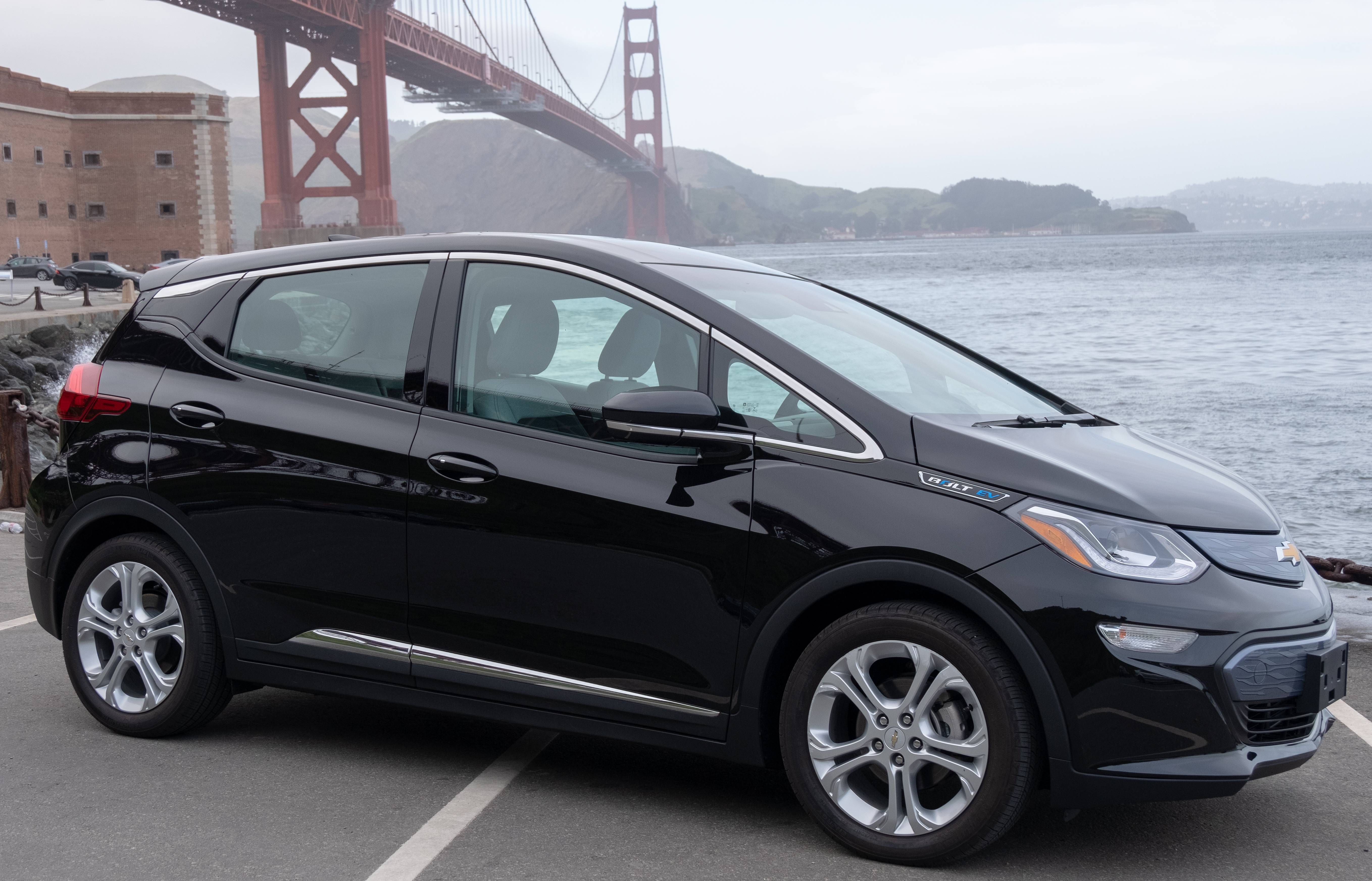 2019 Chevrolet Bolt EV taken in San Francisco in April 2019